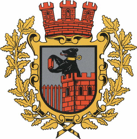 Coat of Arms of Esens